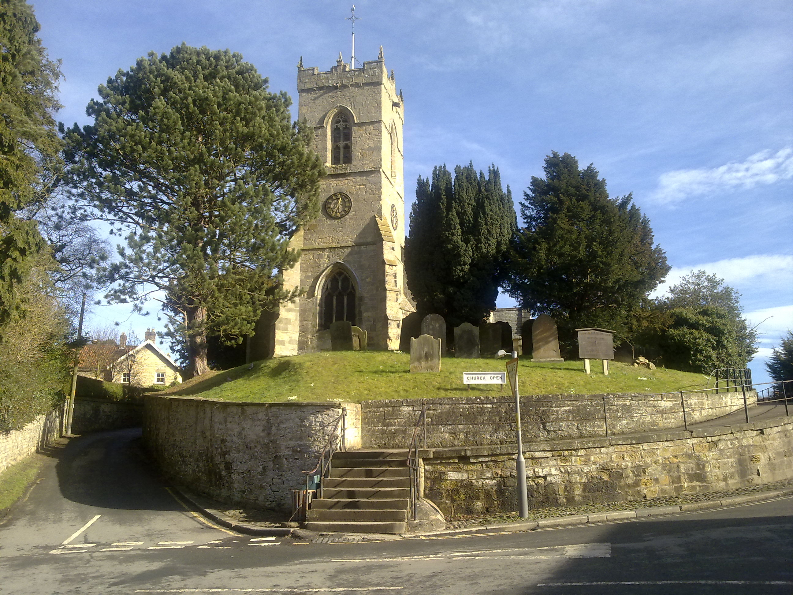 All Saints' parish church, Thornton-le-Dale, North Yorkshire, seen from the west